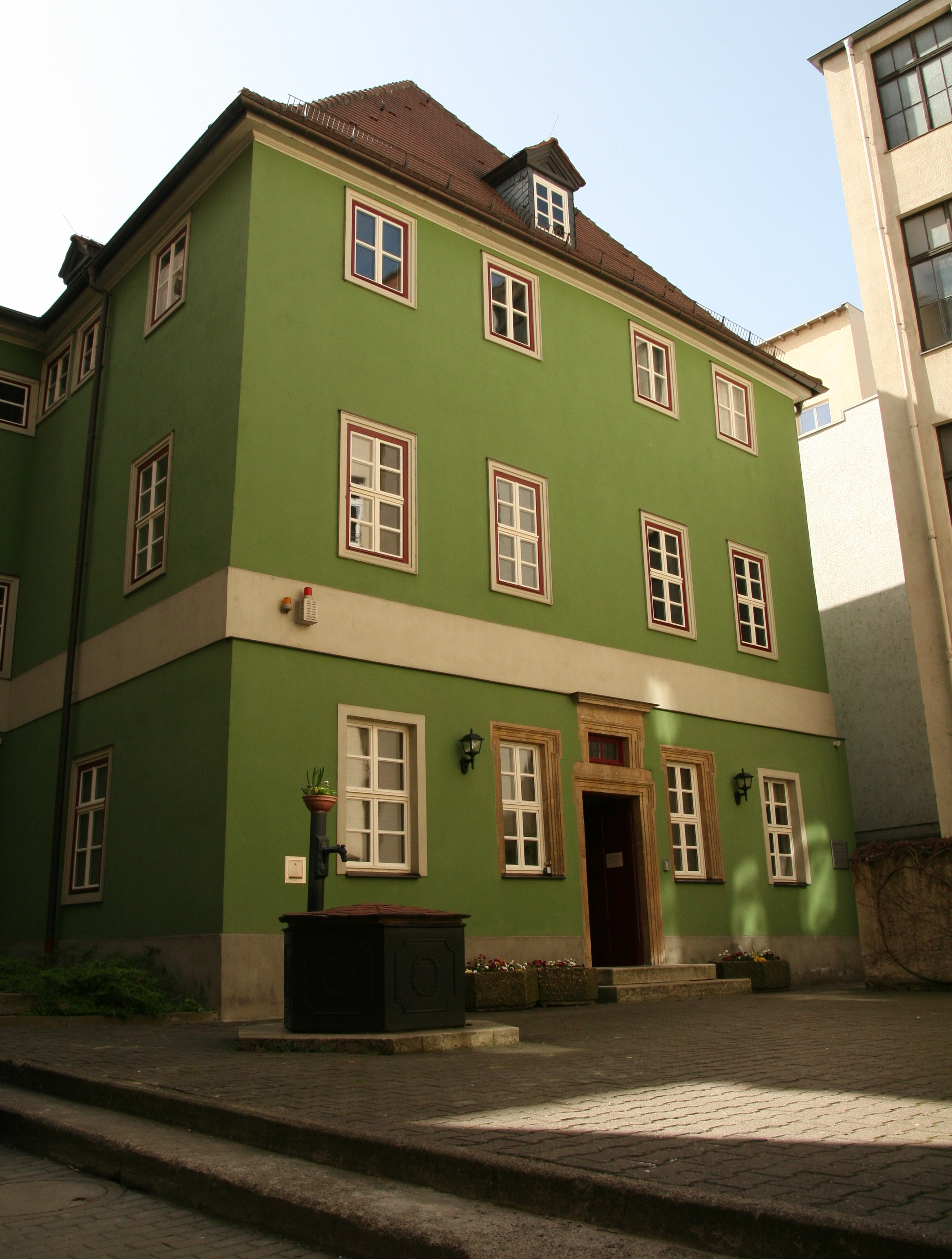 Museum of German Early Romanticism in Jena in April 2011.